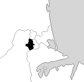 Christchurch South electorate 1938-46